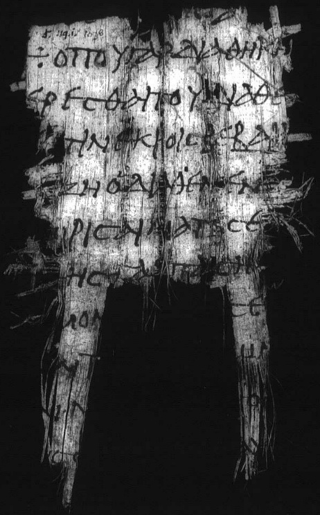 Papyrus 17 - Papyrus Oxyrhynchus 1078 - Cambridge University Library Add. Ms. 5893 - Epistle to the Hebrews 9:12–19